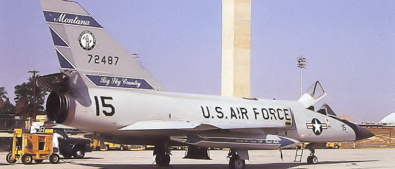 A U.S. Air Force Convair F-106A-90-CO Delta Dart (s/n 57-2487, c/n 8-24-70) from the 186th Fighter-Interceptor Squadron, Montana Air National Guard, in the 1960s. This aircraft was retired to the AMARC as FN0138 on 4 May 1987. It was converted to an QF-106 (AD188) and shot down with an AIM-7M on 1 March 1996.